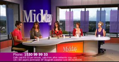 Studio